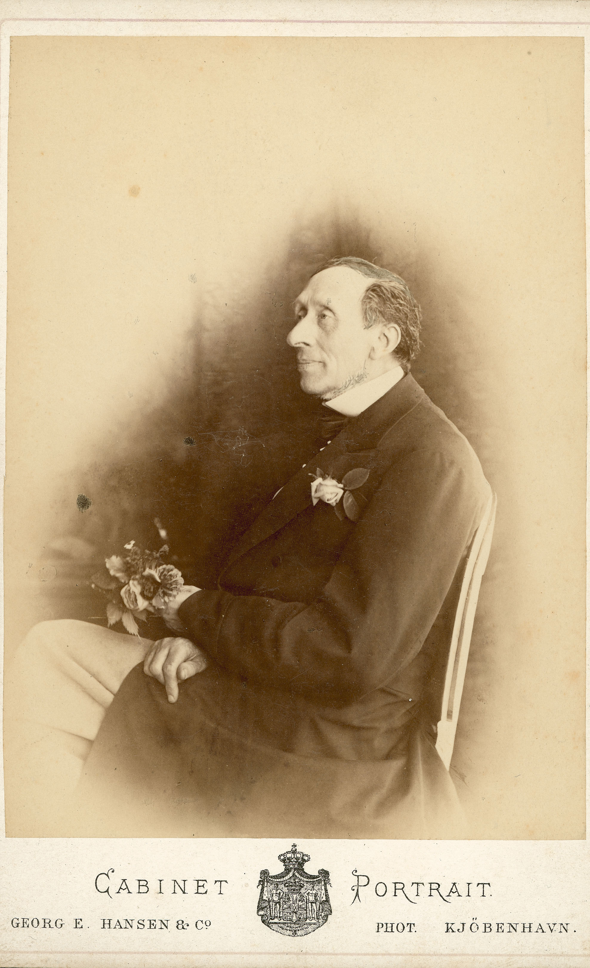 Hans Christian Andersen.